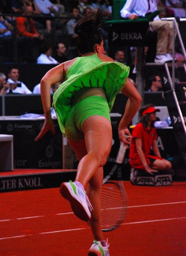 Jelena Janković serving at the 2010 Stuttgart Porsche Grand Prix.